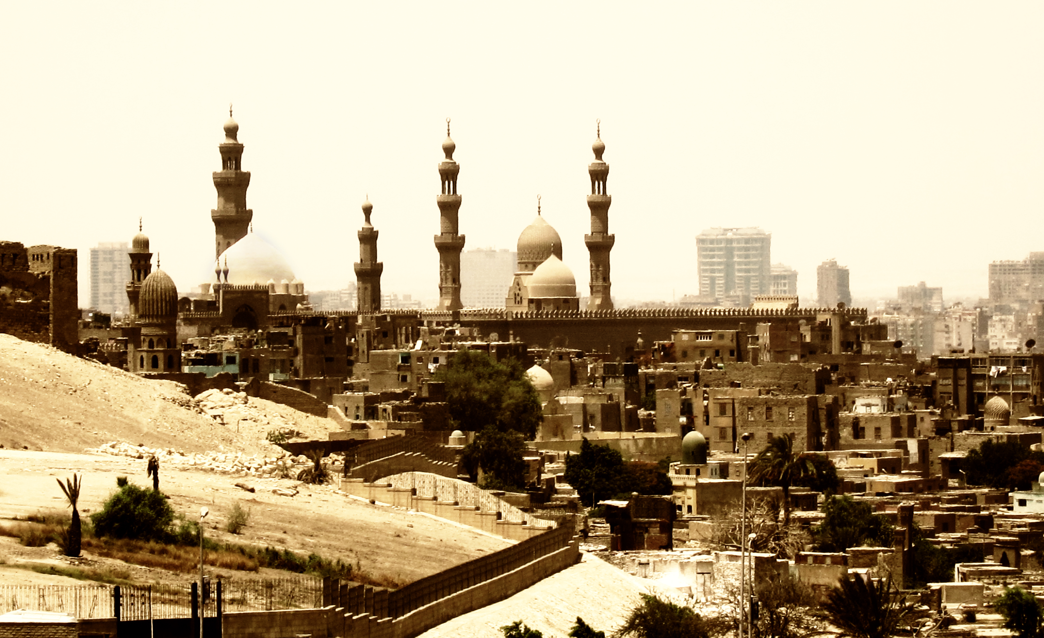 The Sultan Hassan Mosque is considered stylistically the most compact and unified of all Cairo monuments. It is one of the masterpieces of Mamluk architecture. The building was commissioned by Sultan Hassan bin Al-Nasir Muhammad bin Qalawun in 1356 AD as a mosque and religious school for all four juristic branches of Sunni Islam. It was designed so that each of the four schools of thought - Shafi, Maliki, Hanafi and Hanbali - has its own area while sharing the mosque.[1]. Construction started in 1356 AD and ended 7 years later in 1363 AD. Building materials used were harvested from the casing stones of the Giza Necropolis. One of the minarets collapsed during construction killing 300 people. The state was able to fund the massive structure through the properties that were left behind by the victims of the Black Death. The Sultan was assassinated before the mosque was completed and his body was never recovered. The magnificent burial chamber that was intended for him holds his two sons instead. The facade is 76 meters long and 36 meters high. The cornices, the entrance portal, the burial chamber, and the monumental staircase are particularly noteworthy. Verses from the Quran in elegant Kufic and Thuluth scripts adorn the inner walls. Source.